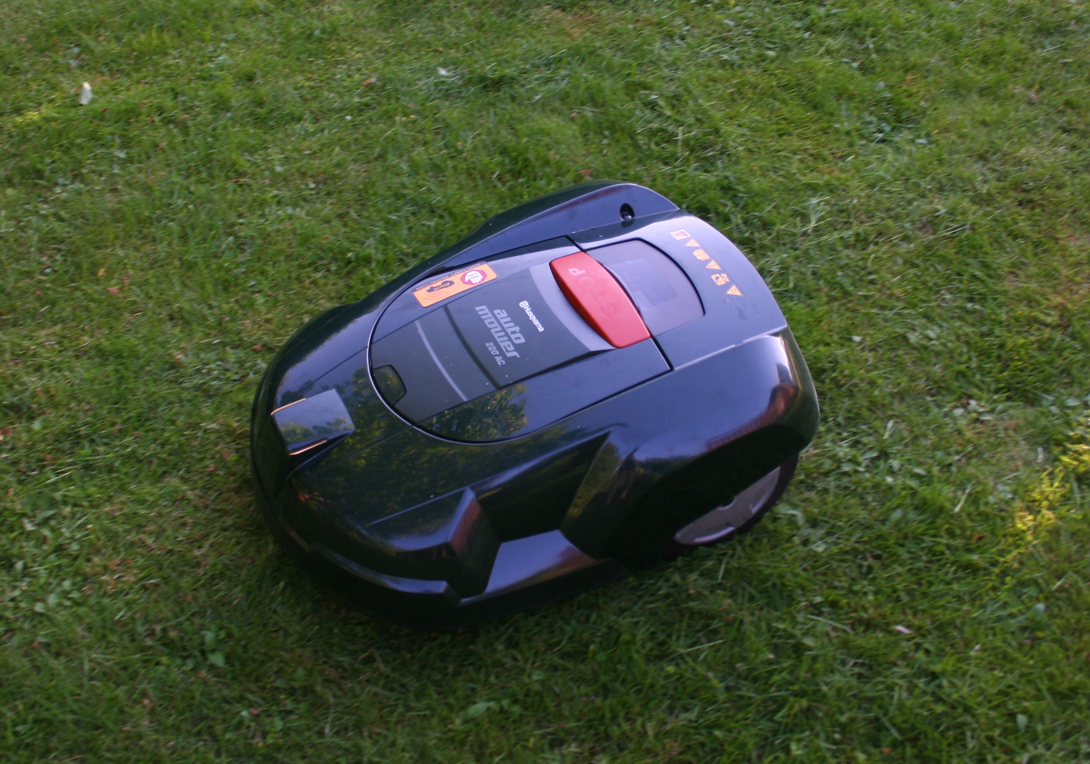 Husqvarna automower